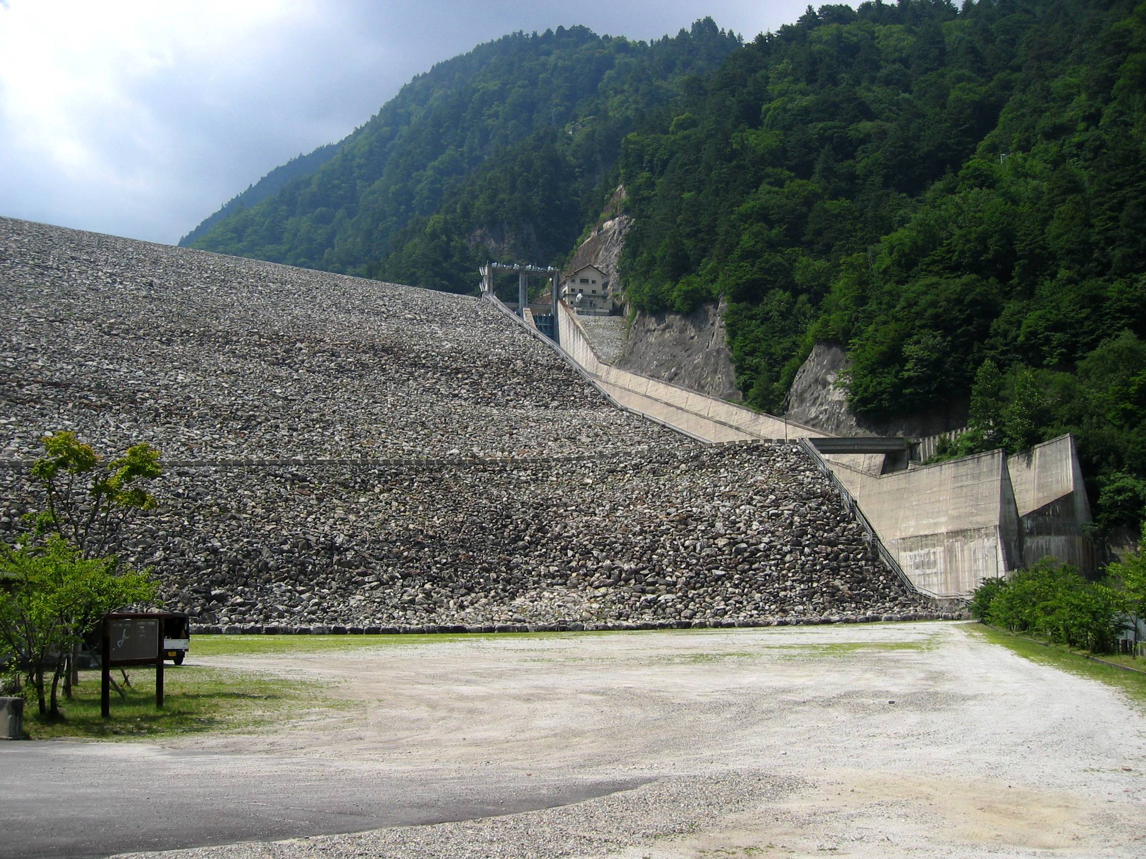 Nanakura Dam (七倉ダム) is a dam in Nagano, Japan. (This picture was retouched with a graphics editor, electric cables were hidden.)